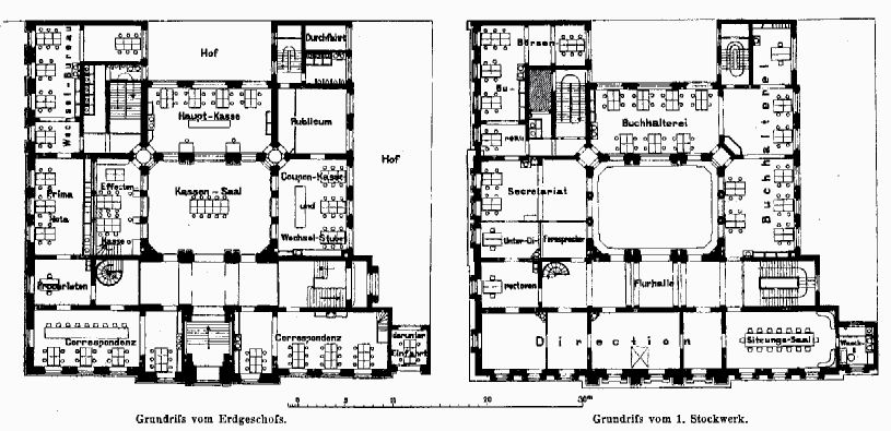 Building plan of the Dresdner Bank building at Behrenstraße in Berlin-Mitte, with the ground floor on the left and the first floor on the right; plan by architect Ludwig Heim (1887)